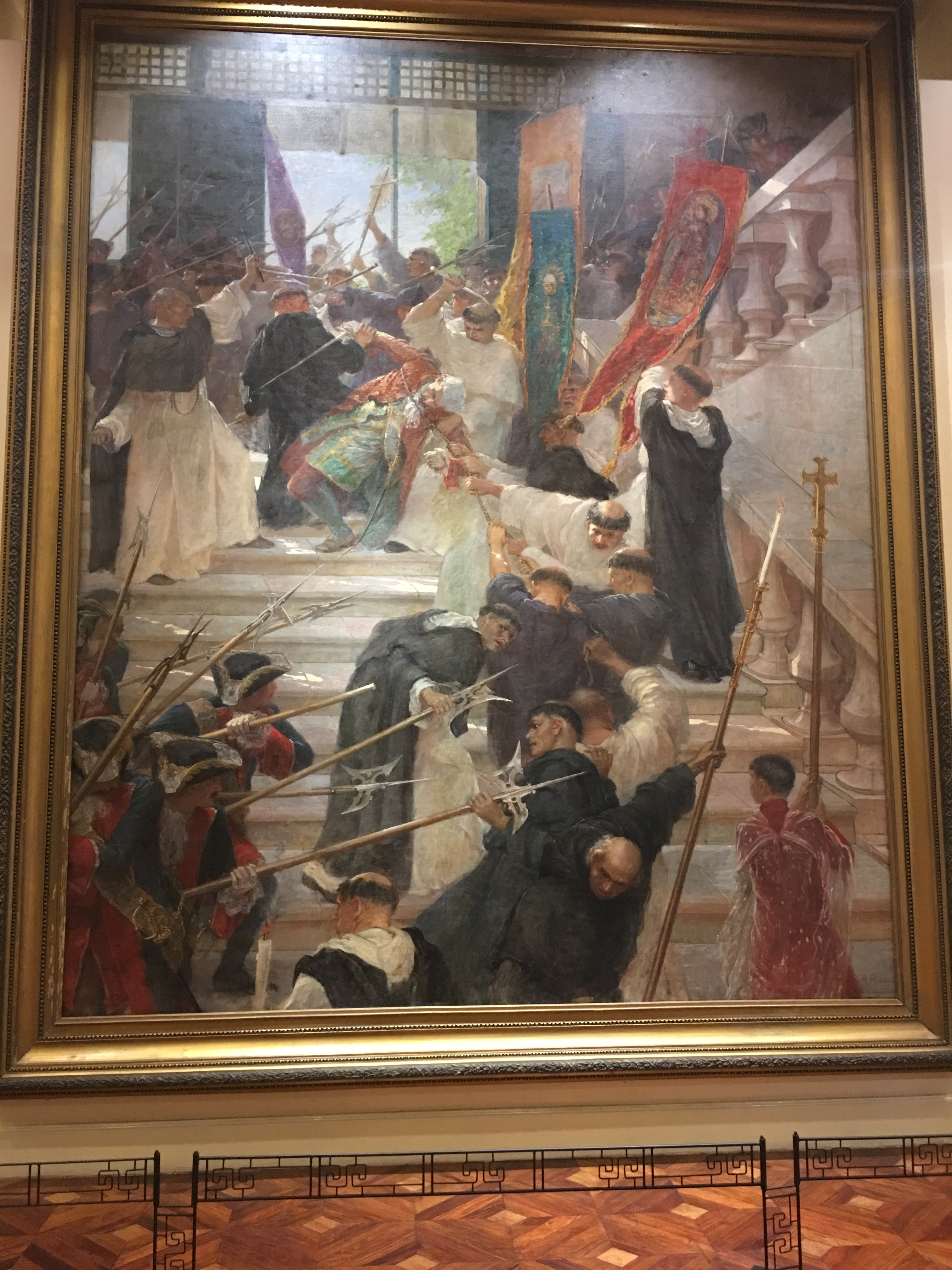 The murder of Governor-general Fernando Manuel de Bustillo Bustamente y Rueda painting by Felix Resurreccion Hidalgo at Philippine National Museum of Fine Arts